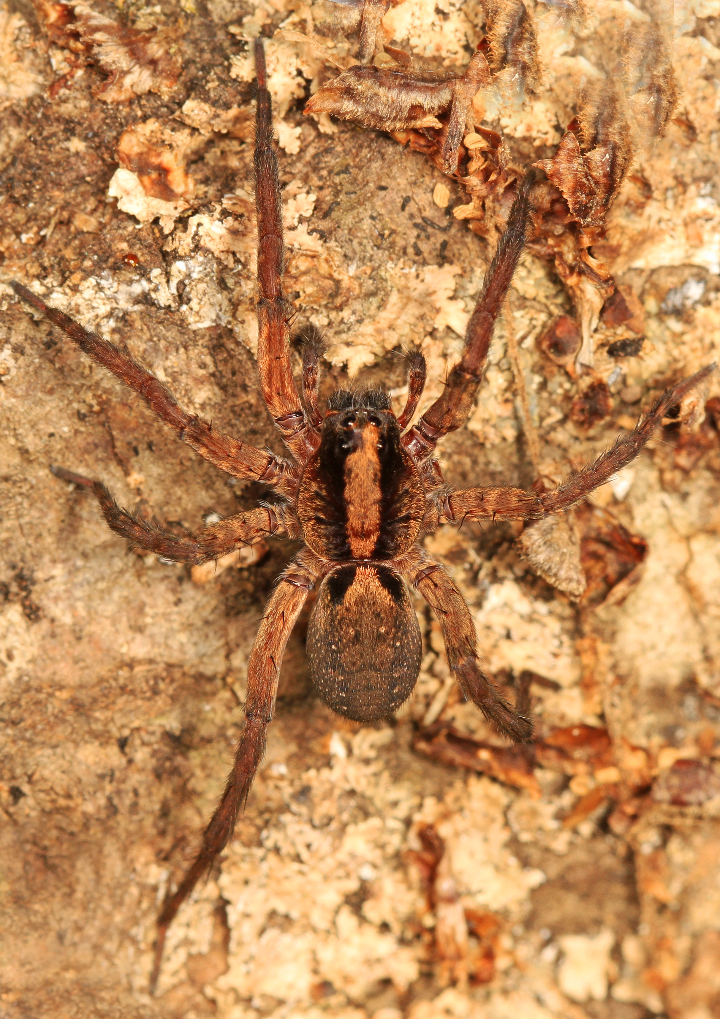 Wolf Spider - Gladicosa gulosa, near Leesville, Louisiana